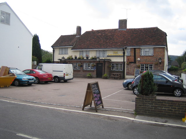 Keymer: The Greyhound public house The pub is on the south side of Keymer Road, opposite 225867. It dates back to around the middle of the 16th century and has a fireplace dated 1595. The pub's website is here